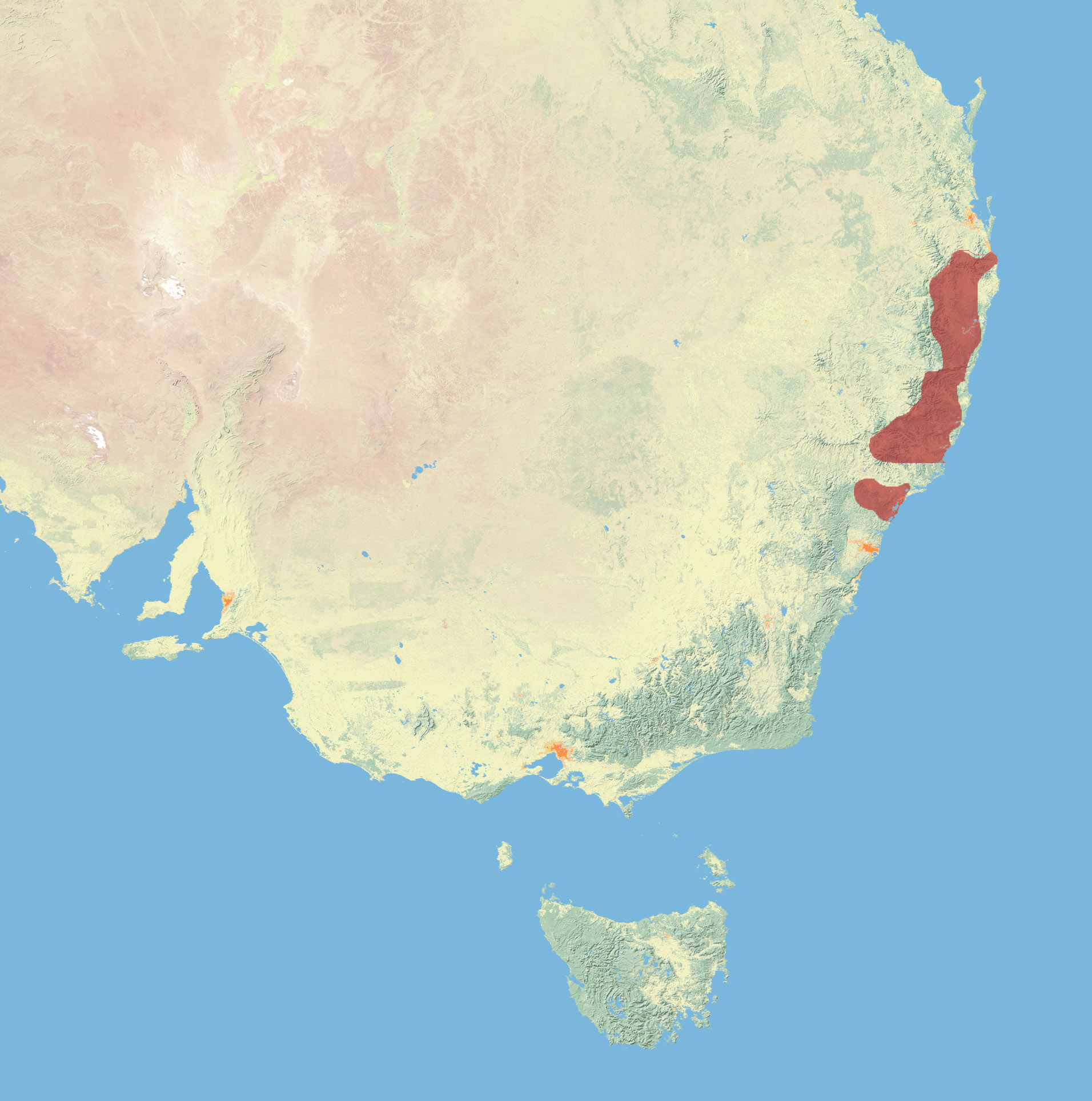 The Distribution of the Parma Wallaby According to the IUCN